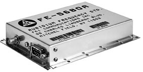 FE-5680A rubidium frequency standard or "atomic clock", manufactured by FEI Communications. About 5 inches long. It produces a "clock signal" consisting of a digital pulse signal with an extremely accurate frequency. The frequency is stable to 2x10-11 per day or 2x10-9 per year. It requires a warmup period of 5 minutes before the frequency "locks" and becomes stable. The frequency of the output may be adjusted to any frequency between 1 Hz and 20 MHz. The cheapest and most widely-used atomic clocks, rubidium standards cost a few hundred dollars. They are used to control the frequency of radio and television stations, the transmitters in cell phone towers, and in many scientific and military applications. Information from FE-5680A Data Sheet, Frequency Electronics, Inc.